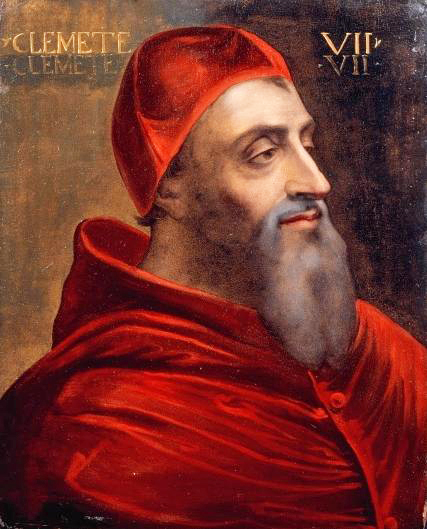 Portrait of Giulio de' Medici (1478 - 1534) Pope Clement VII